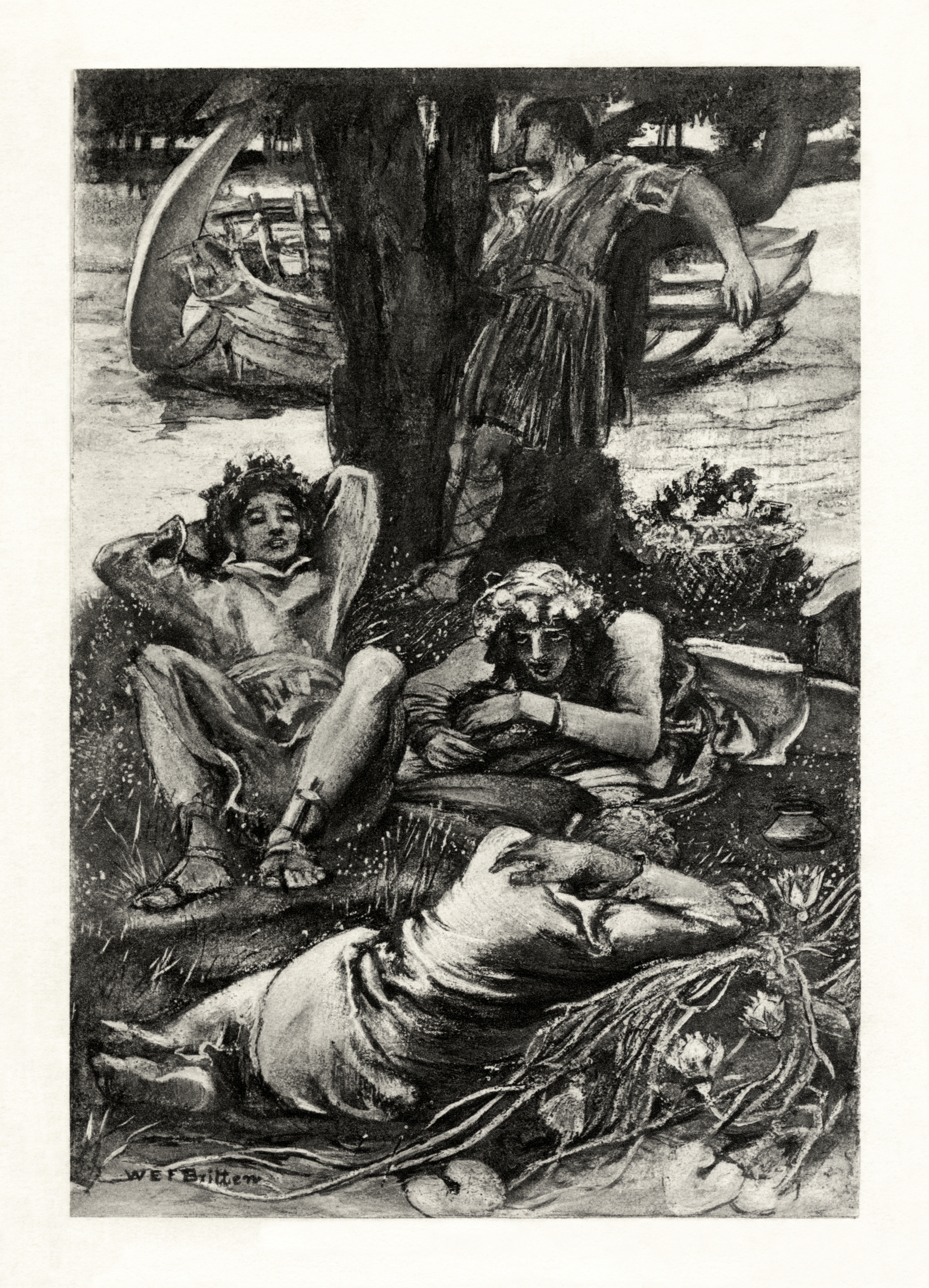 Illustration to Tennyson's "The Lotos-Eaters" by W. E. F. Britten. The poem's a bit long to quote: see the full text at the English Wikisource. The relevant section (see below for source for this) is: Let us swear an oath, and keep it with an equal mind, In the hollow Lotos-land to live and lie reclined On the hills like Gods together, careless of mankind.